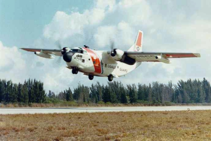 A U.S. Coast Guard Fairchild HC-123B Provider (serial 4705, USAF s/n 54-705) from the 7th Coast Guard District, Miami, Florida (USA), in 1971. This aircraft was aquired by the U.S. Coast Guard on 22 March 1960 and returned to the USAF on 24 March 1972. Later it was sold to Thailand.